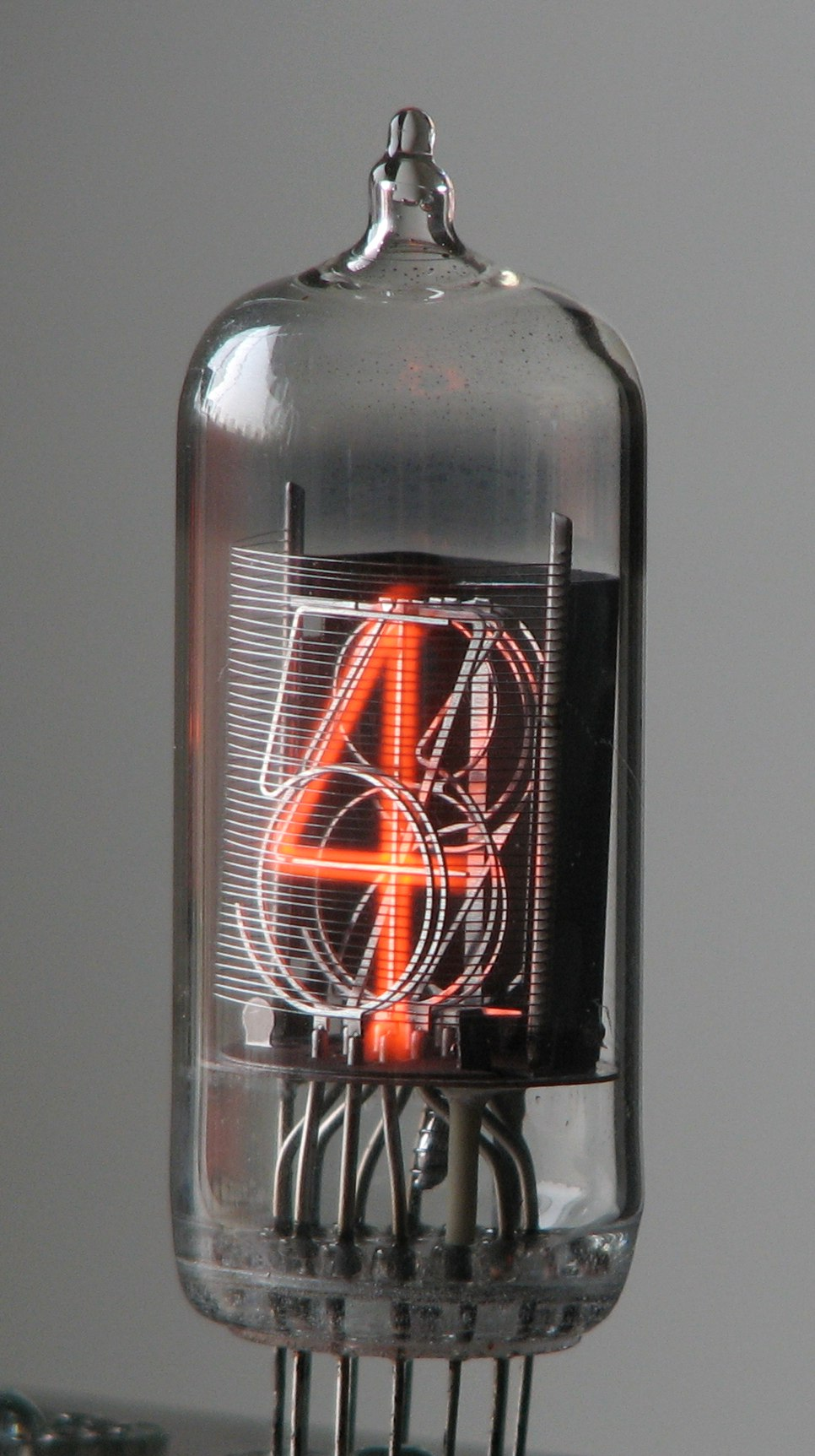 Nixie tube Telefunken ZM1210 (without coating) operating. Diameter: 19mm, digits' height: 15,5mm. The filament in front of the digits is the anode. The tube has eleven cathodes: ten of them formed as the digits 0 to 9 and one (in the lower left) as decimal point.